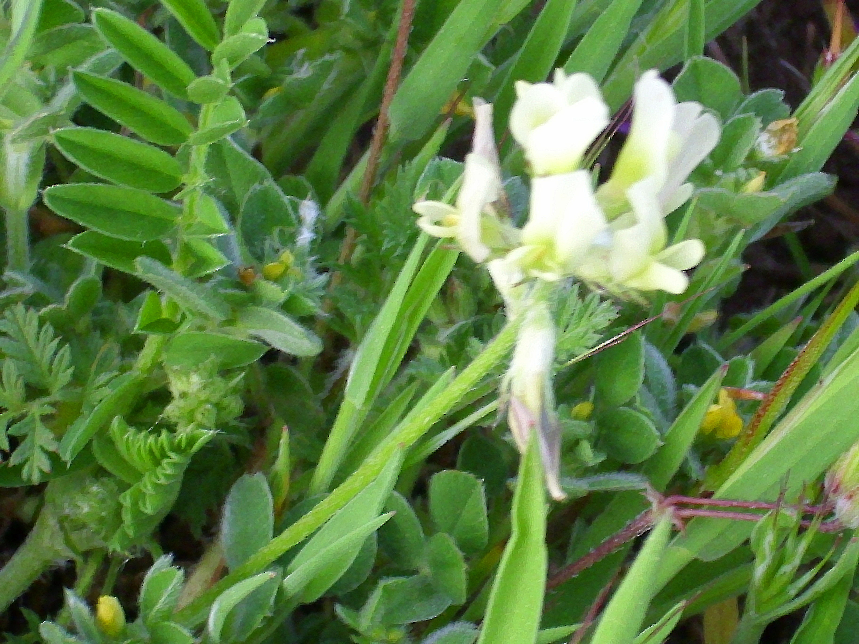 Astragalus boeticus flowers and leaves Campo de Calatrava, Spain